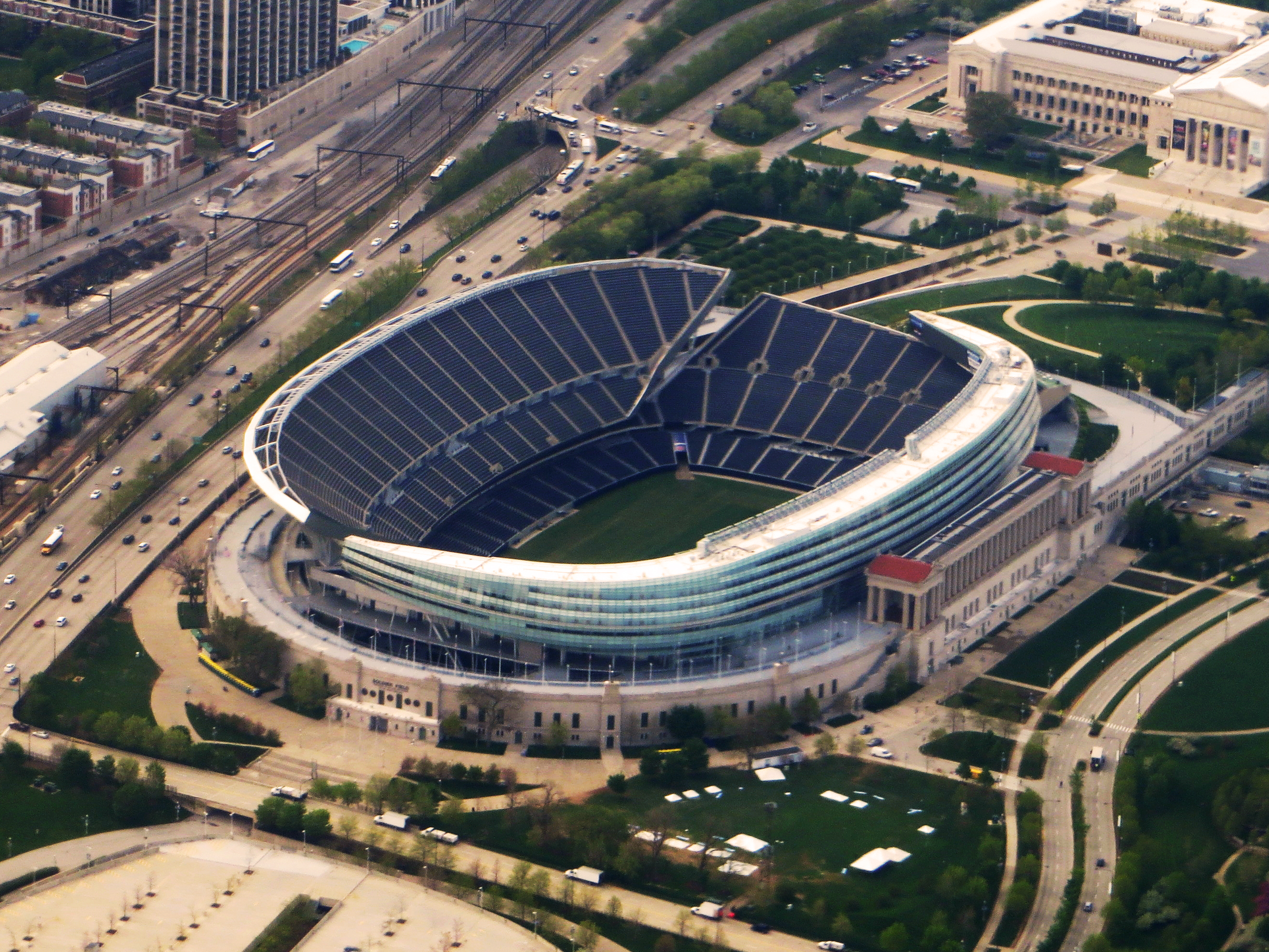 oldier Field is a football stadium on the Near South Side of Chicago, Illinois, United States. Since 1971 Soldier Field has been home of the National Football League's Chicago Bears, and is the oldest NFL stadium. With a capacity of 61,500, it is the second smallest stadium in the NFL. Soldier Field reopened in 2003 after an extensive interior renovation.